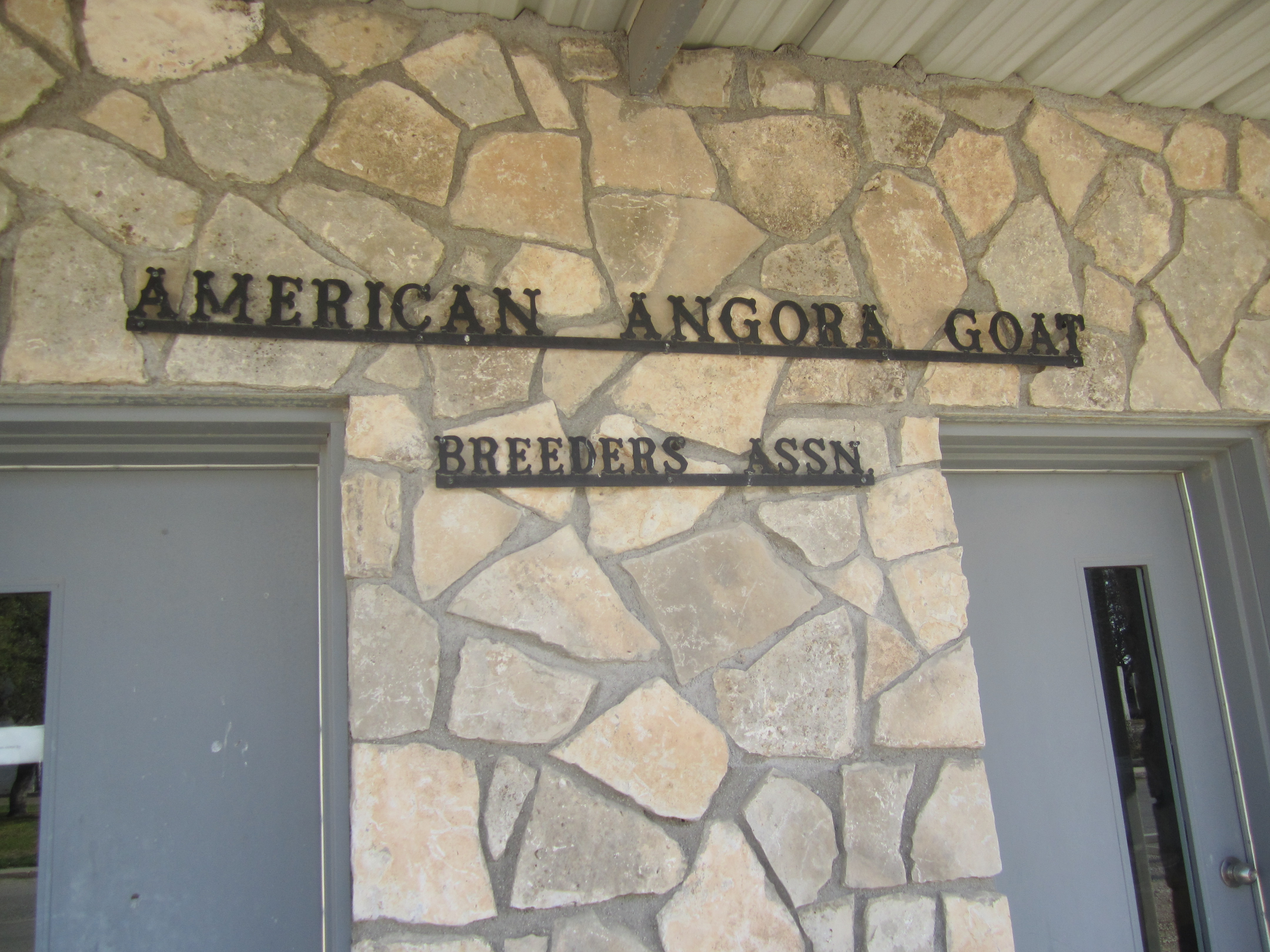 I took photo with Canon camera in Rocksprings, TX.